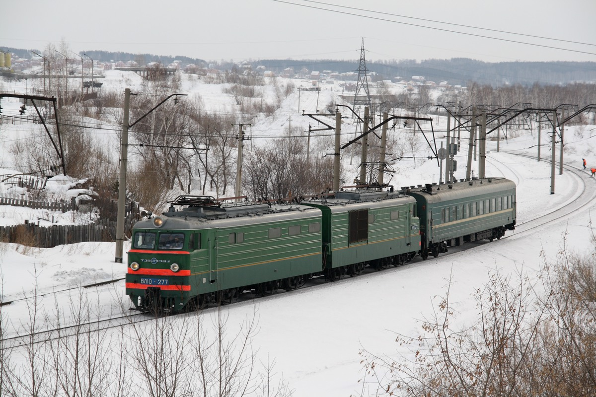 Locomotive near Tomsk, Russia.